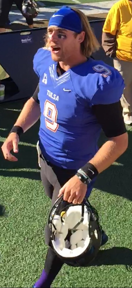 Dane Evans after a Tulsa football game in November 2015